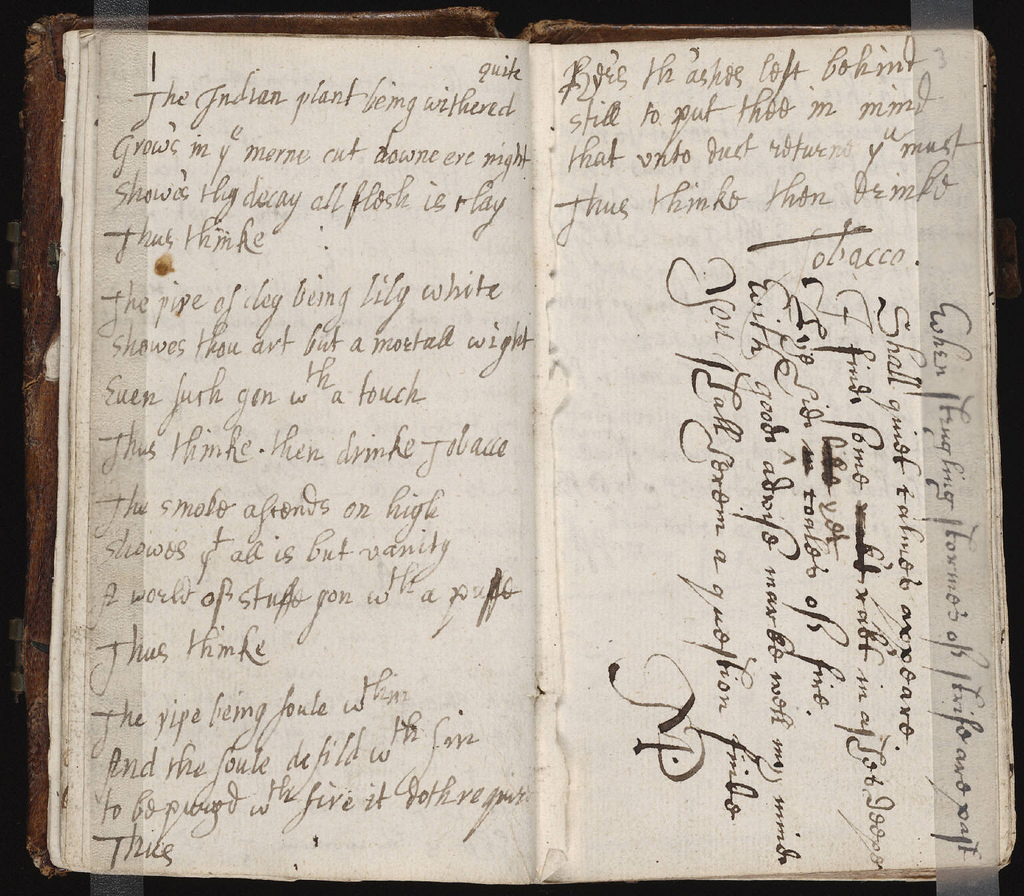 Anonymous manuscript containing poems by various authors, in various hands. Includes Shakespeare's second sonnet. Page/Caption: [2v-3r] [mid 17th century] 1 v., (190 p.) 13 x 7 cm. Subjects: English poetry Genre: Commonplace books Manuscripts Poems Cite as: James Marshall and Marie-Louise Osborn Collection, Beinecke Rare Book and Manuscript Library, Yale University Repository: [ Beinecke Rare Book & Manuscript Library, Yale University] Bibliographic Record Number: 2031683 Call Number: Osborn b205